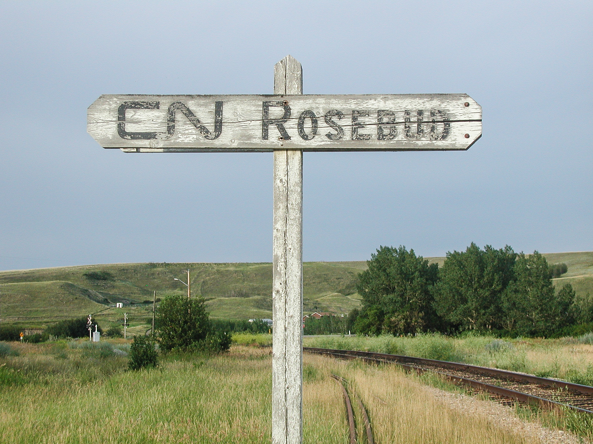 Canadian National (CN) Railway sign in Rosebud, Alberta, Canada on July 19, 2003.